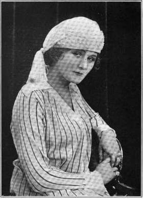 Tasseled toque of Yo-San silk and chenille embroidery. Importation of J. M. Gidding & Co., New York. (p. 59)